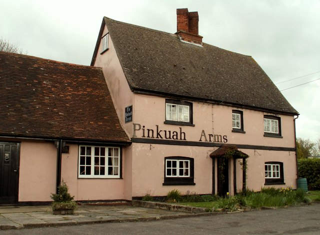 'The Pinkuah Arms' public house, Pentlow, Essex.